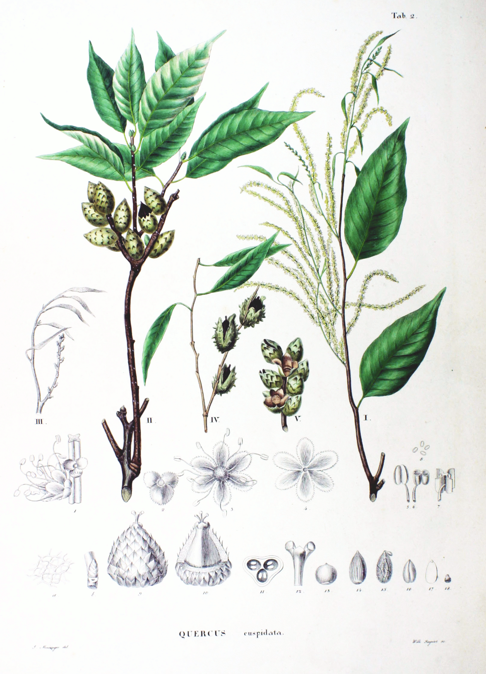 Plate from book